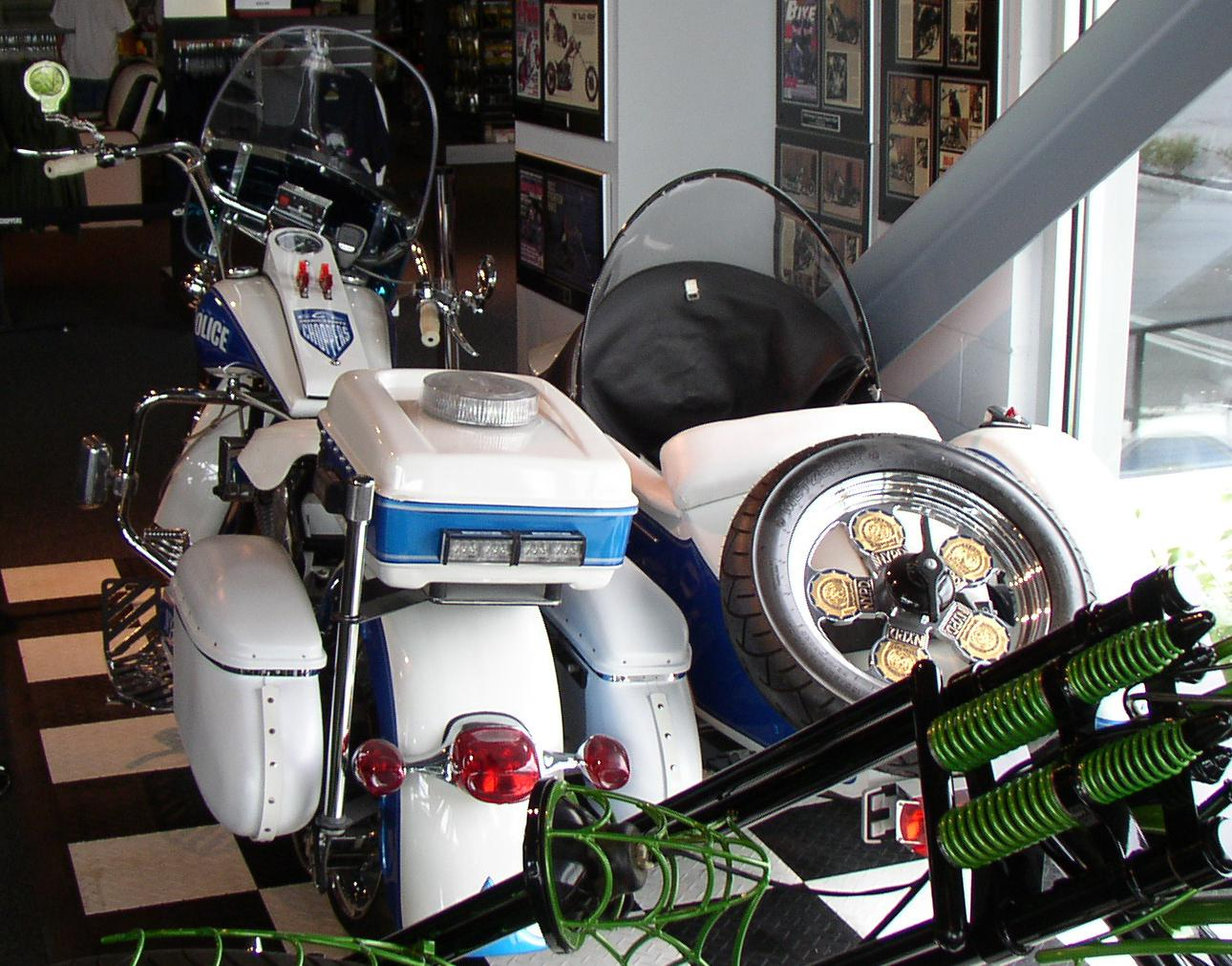 OCC NYPD Bike in the OCC-Shop